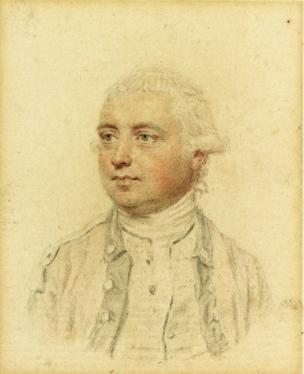 Portrait of General Sir John Dalling